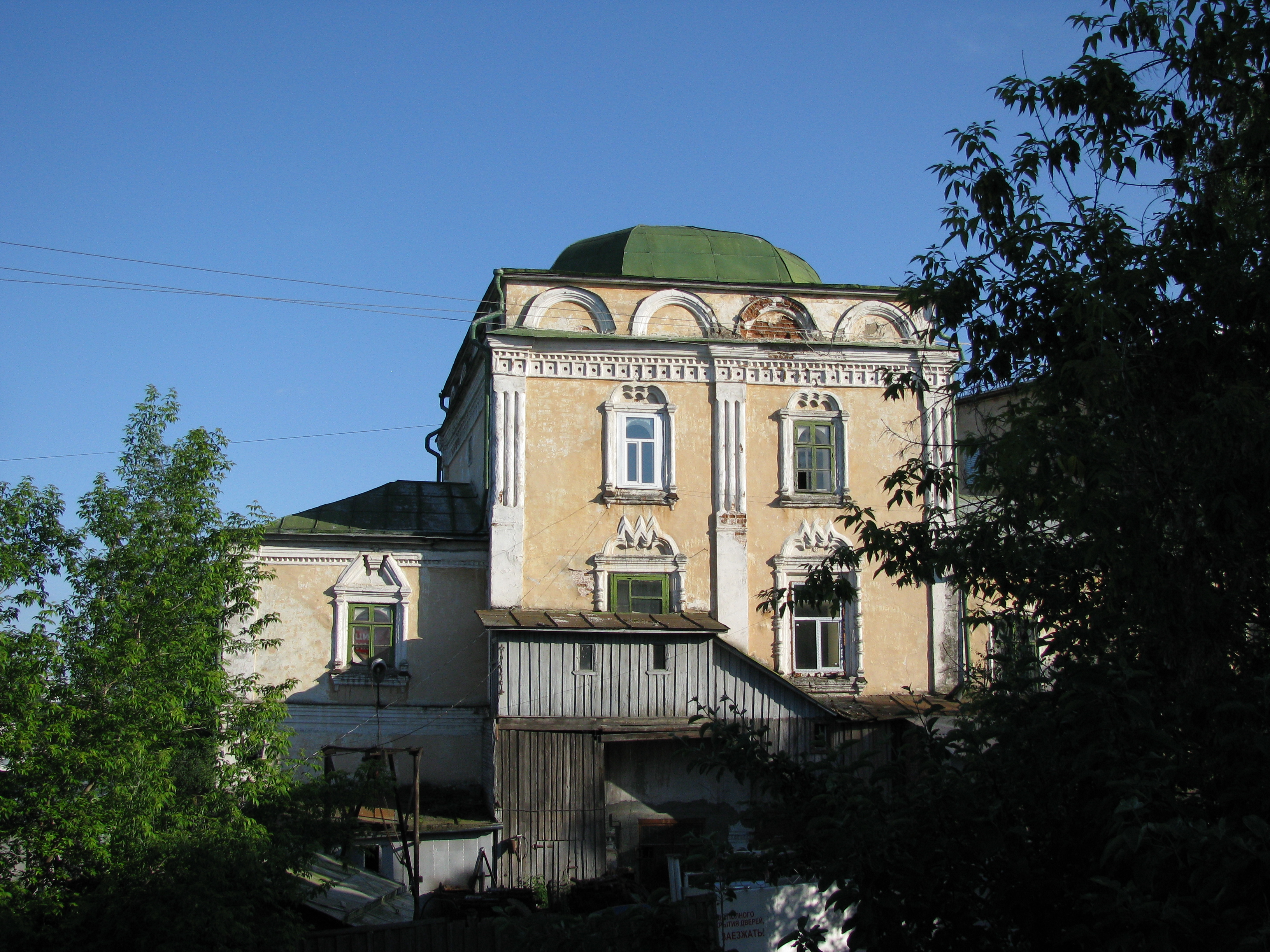 near Sovetsky Prospekt (Soviet avenue), 37 in Vologda